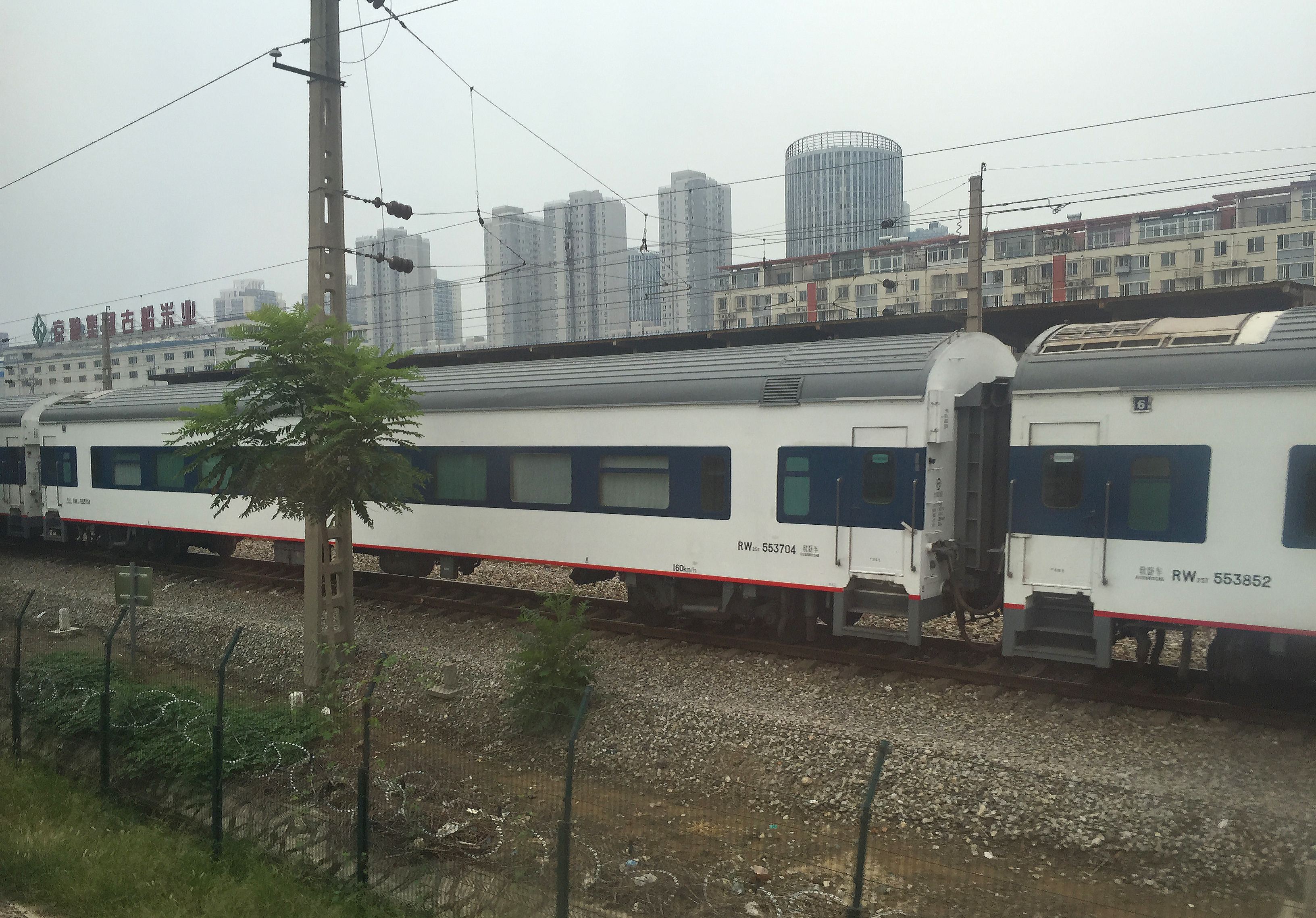 These are the carriages of Z79 Beijing-Dalian train. By the way, today is 823 day...our lab number.